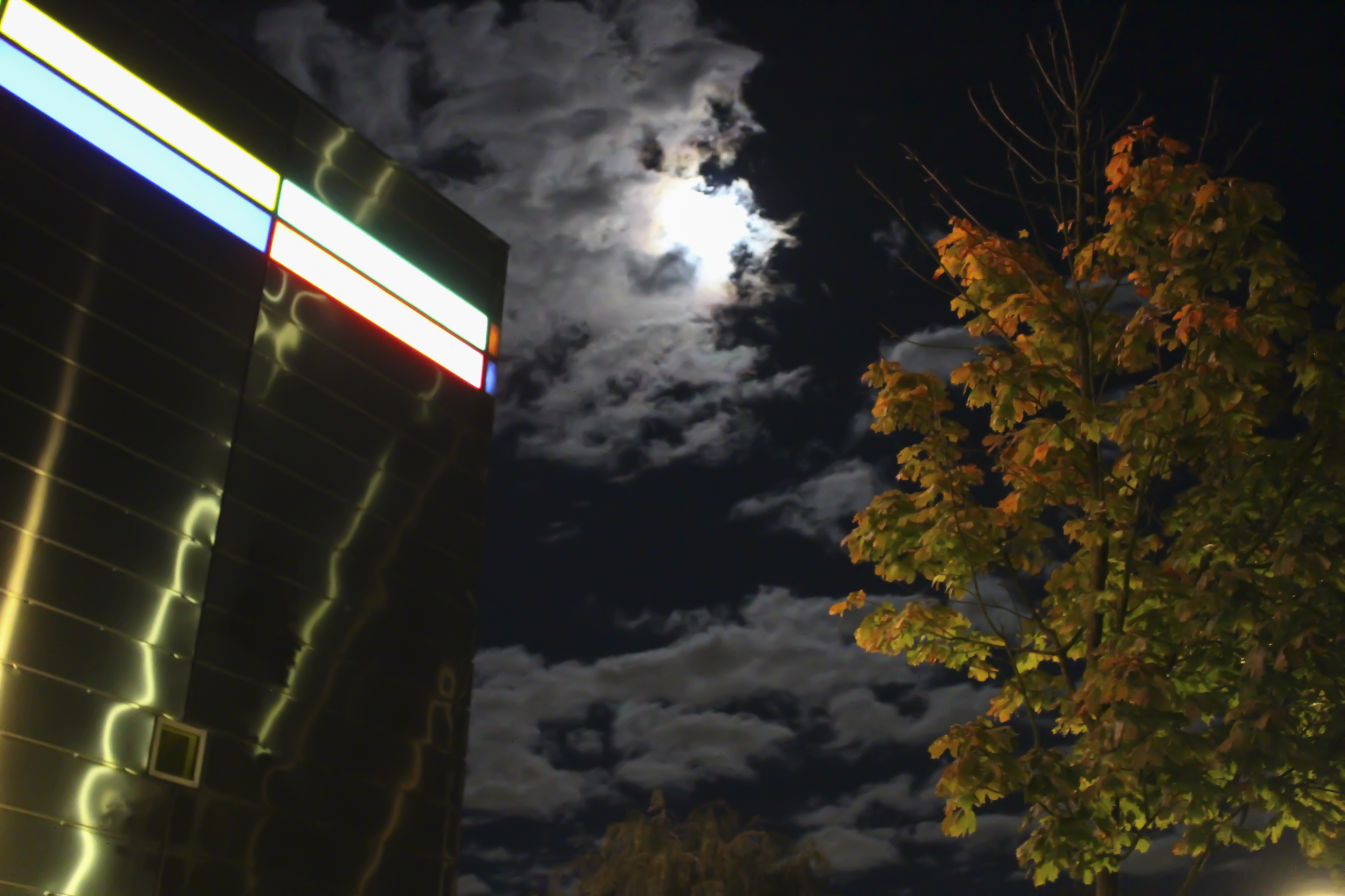 DTU Danchip, building 346 on the Technical University of Denmark, Kongens Lyngby, Denmark. In moonlight through the clouds.